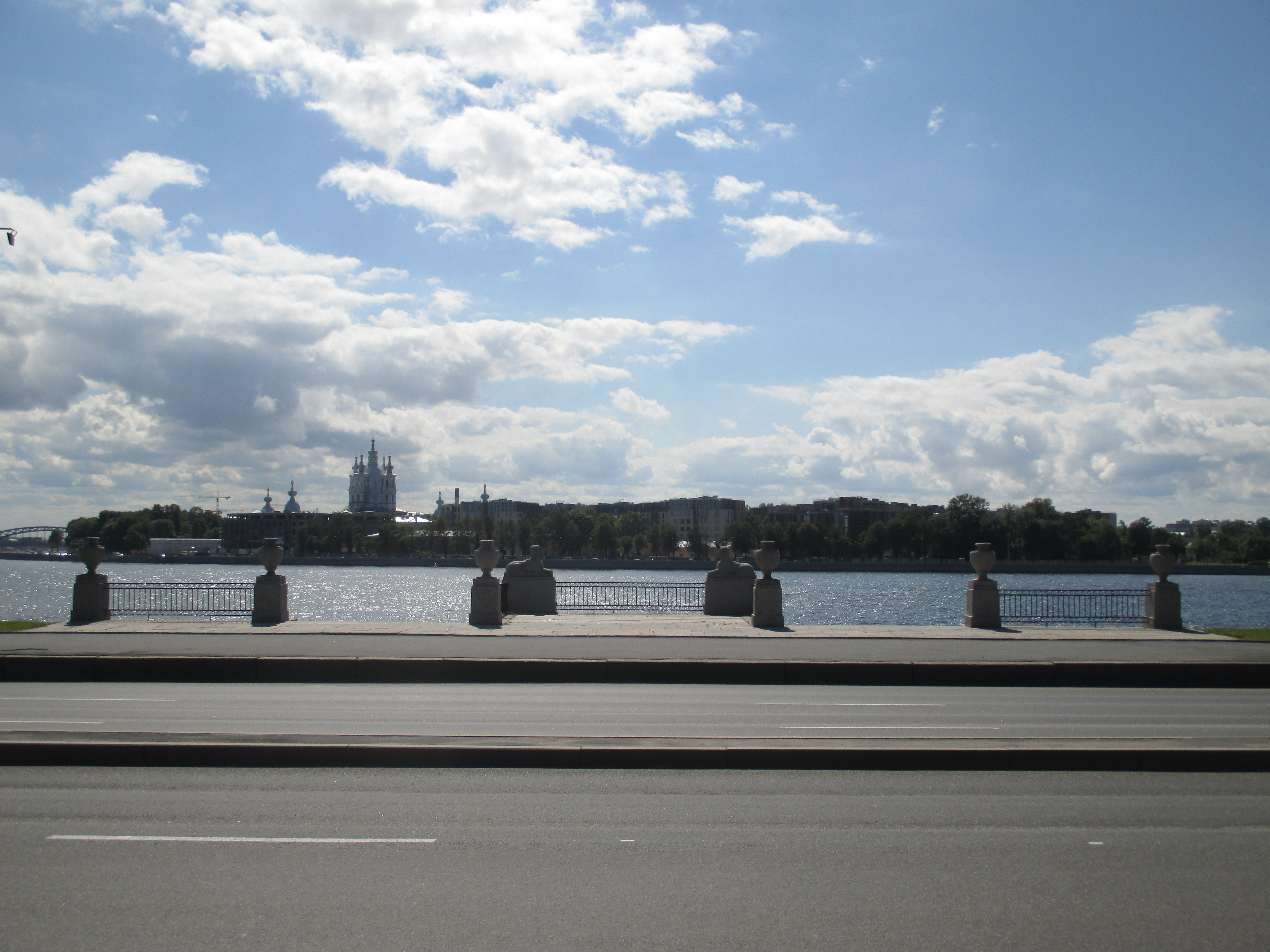 Bezborodko Dacha in Saint Petersburg